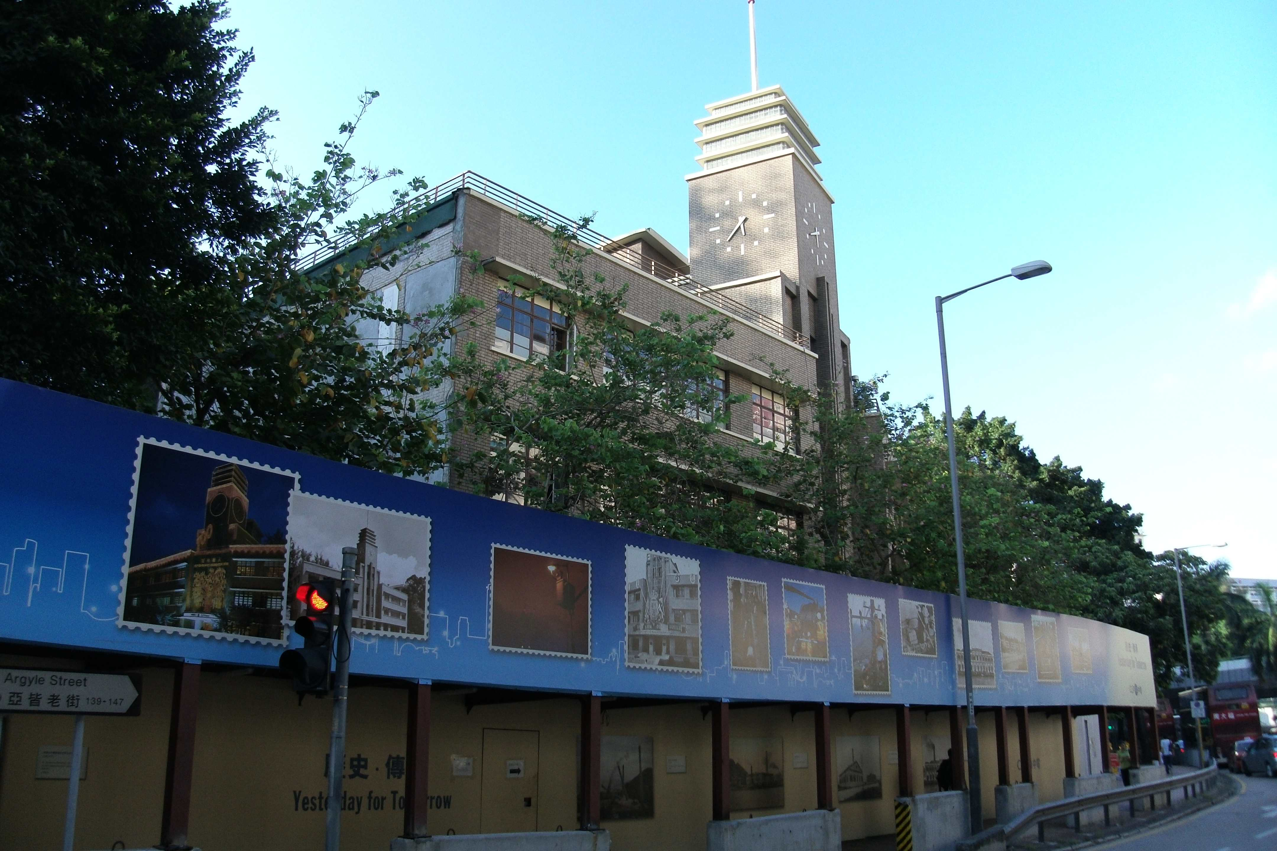 CLP clock tower to be demolished